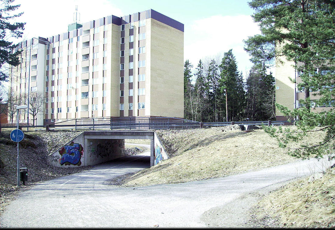 Musikvägen with Peterson-Bergers väg and Blomdahls väg, Uppsala, Sweden